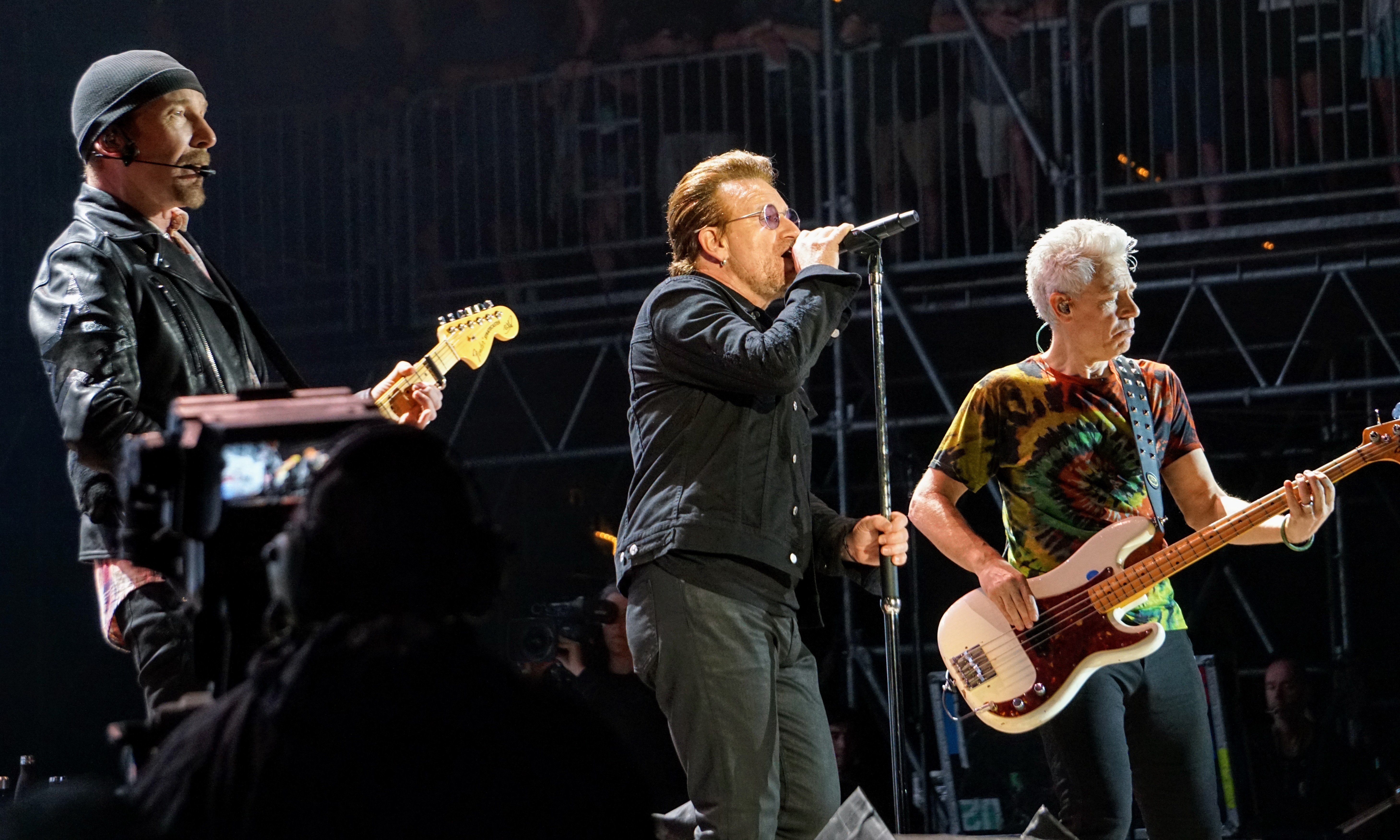 U2 performing at the Bonnaroo Music Festival in Manchester, TN on June 9, 2017 as part of the Joshua Tree Tour 2017